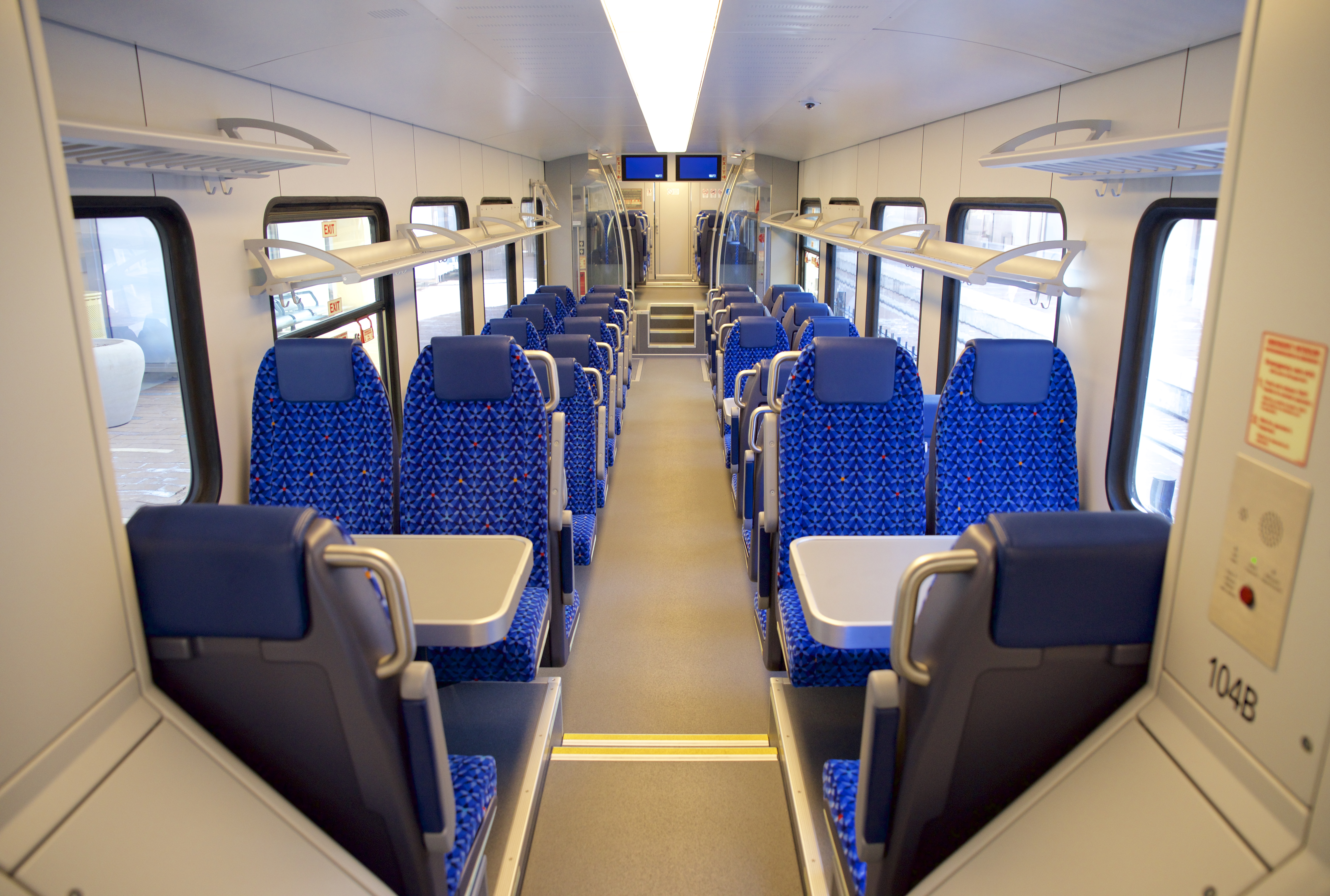 Interior of TEXRail Stadler FLIRT railcar, November 2019.